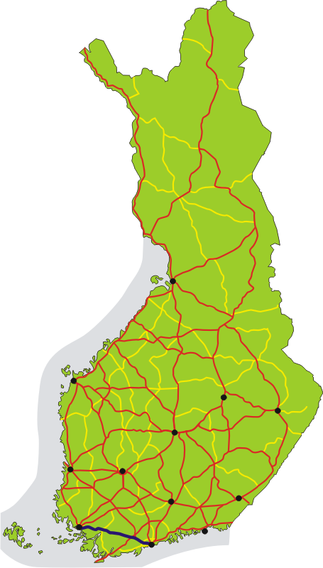 Map of the main road 1 in Finland, shown in dark blue. The other 1st class main roads (numbers 1–29) are red, 2nd class main roads (numbers 40–98) yellow. Black dots show the 12 biggest urban areas.